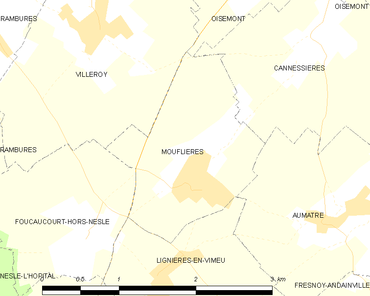 Map of French municipality Mouflières